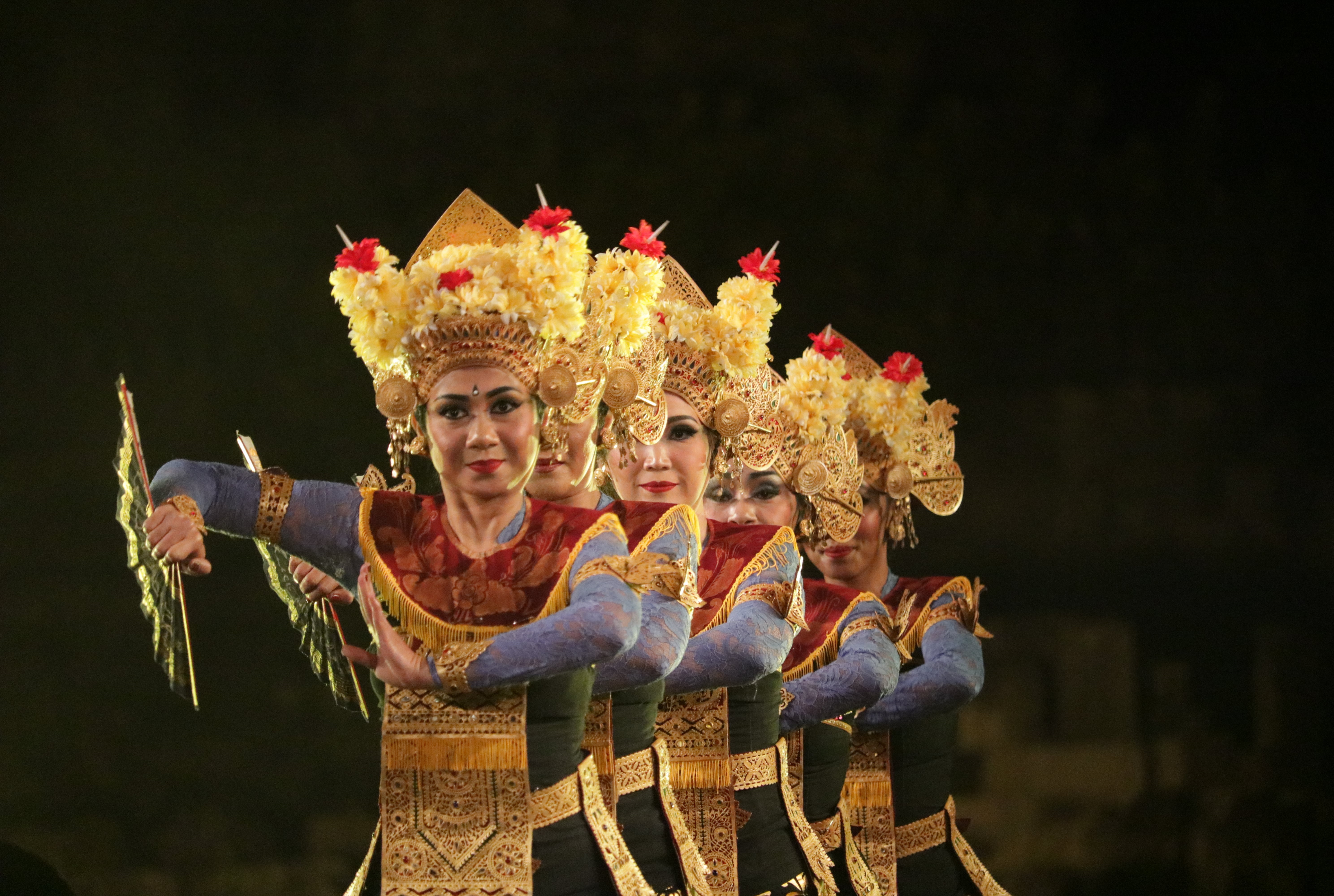 Legong dance itself comes from the origin of the word "Leg" which means flexible and "gong" which can be interpreted as gamelan. For this reason, this dance has a graceful movement accompanied by a traditional Balinese gamelan called Semar Pegulingan. In addition, the dancers who play Legong use hand fans.